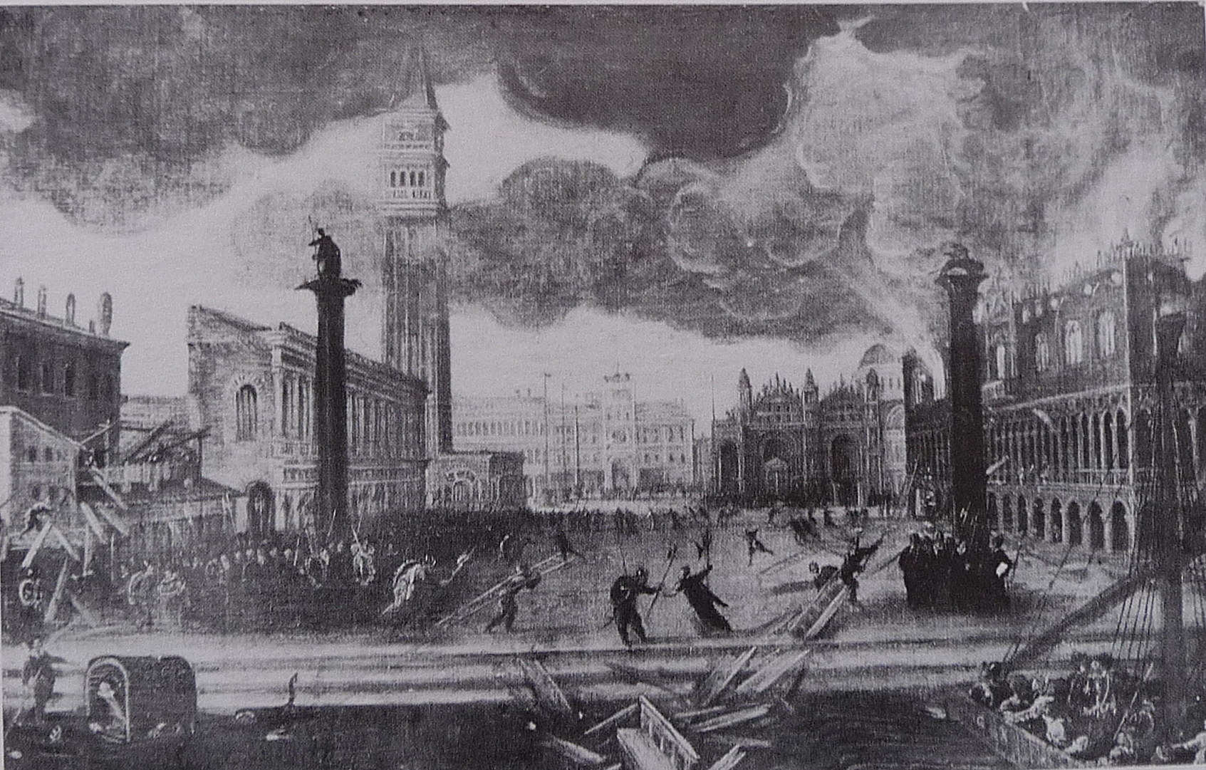 Teodoro Pozzoserrato: Incendio a Palazzo Ducale. Treviso, Museo Civico, 16th c.